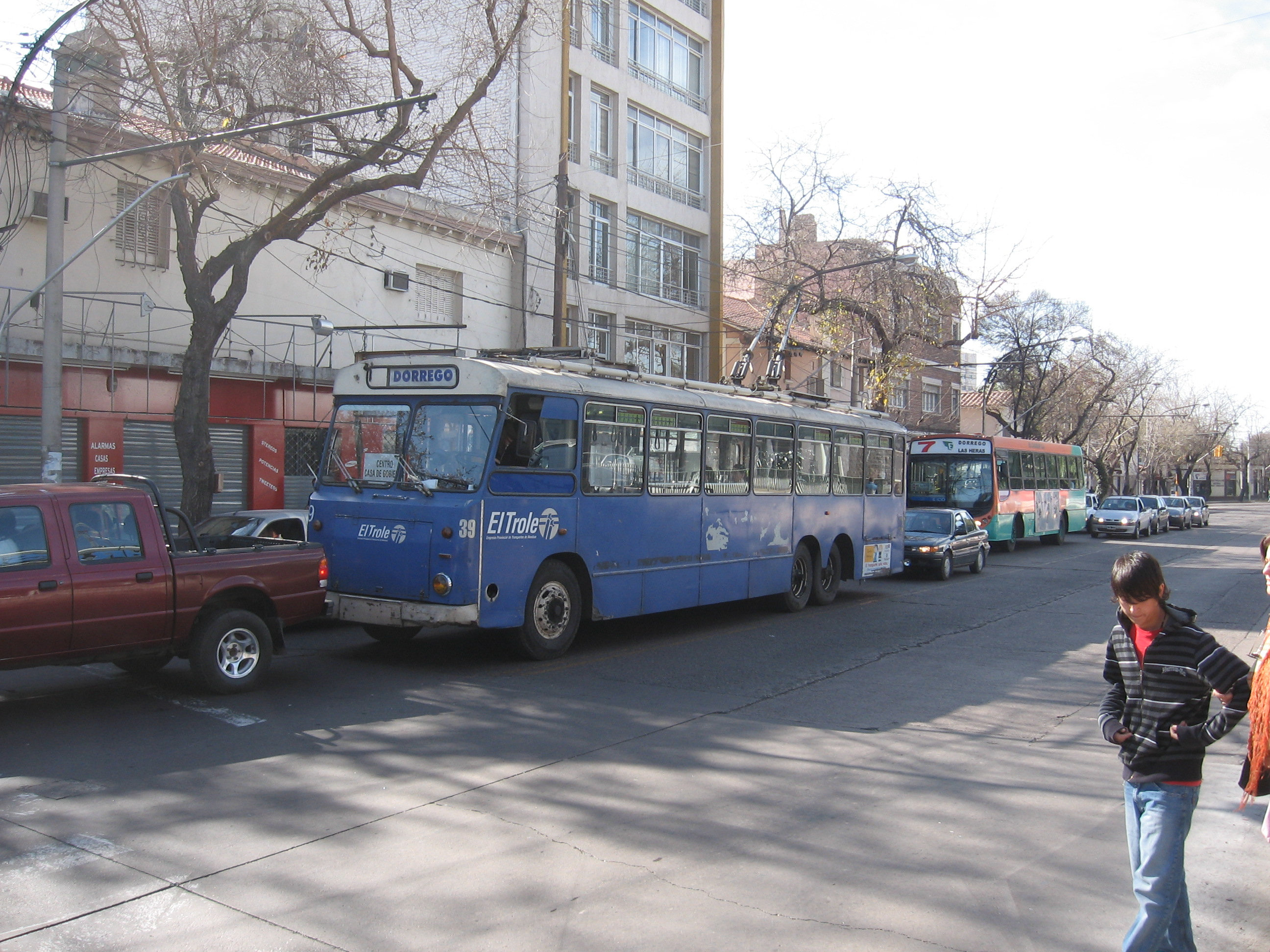 Trolleybus in the city of Mendoza, Argentina.